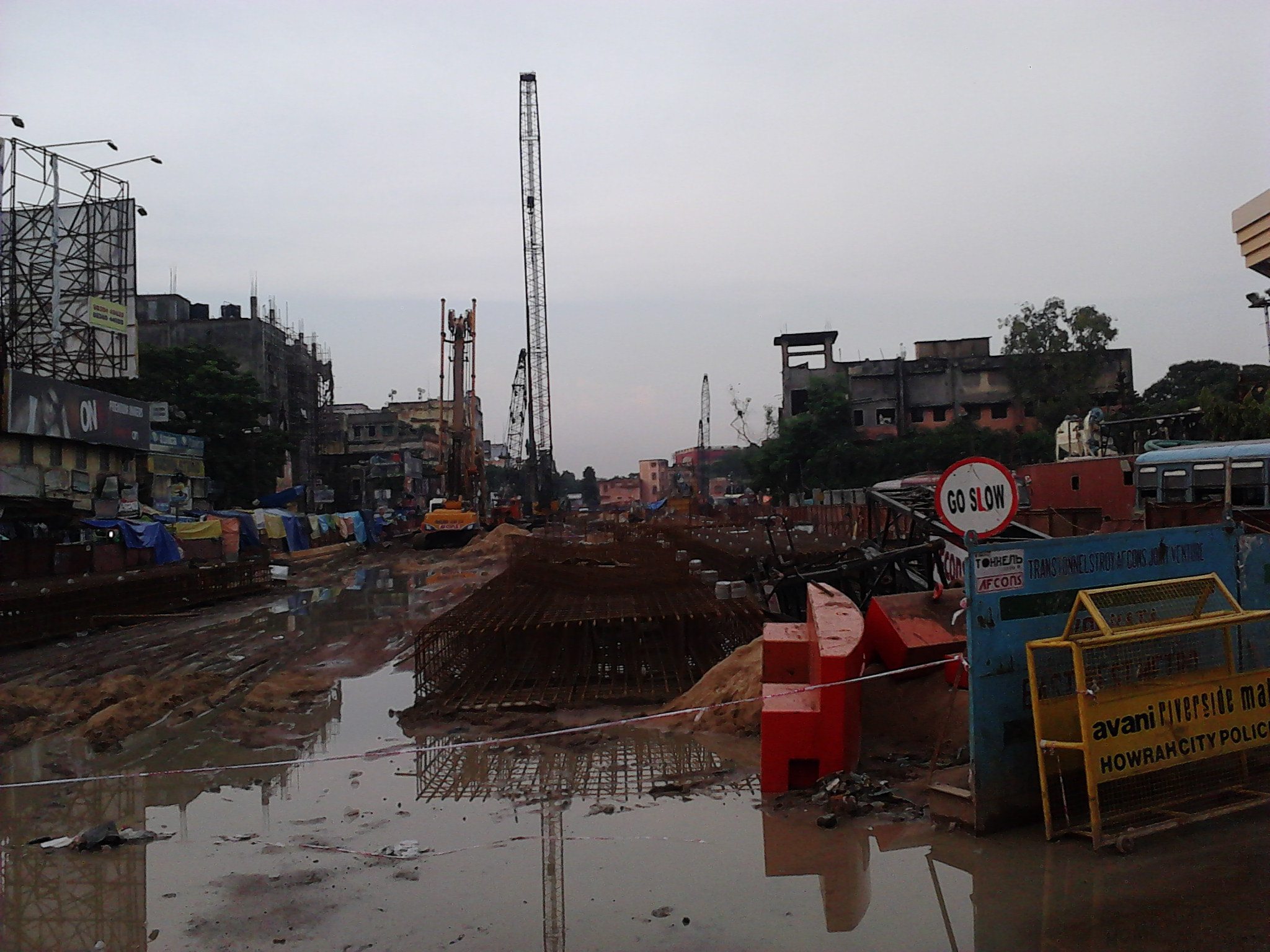 The East-West corridor of the Kolkata Metro Railway (Line 2) is a rapid transit system under construction which will serve Salt Lake City, Kolkata and Howrah. It connects the IT township of Salt Lake and Howrah, crossing the Hooghly River. It would consist of 12 stations from Salt Lake Sector V in the east to Howrah Maidan in the west, of which 6 would be elevated and 6 would be underground, with a total distance of 14.67 km. The East-West Metro would be the first metro in India that would have an underwater stretch, under the Hooghly River.